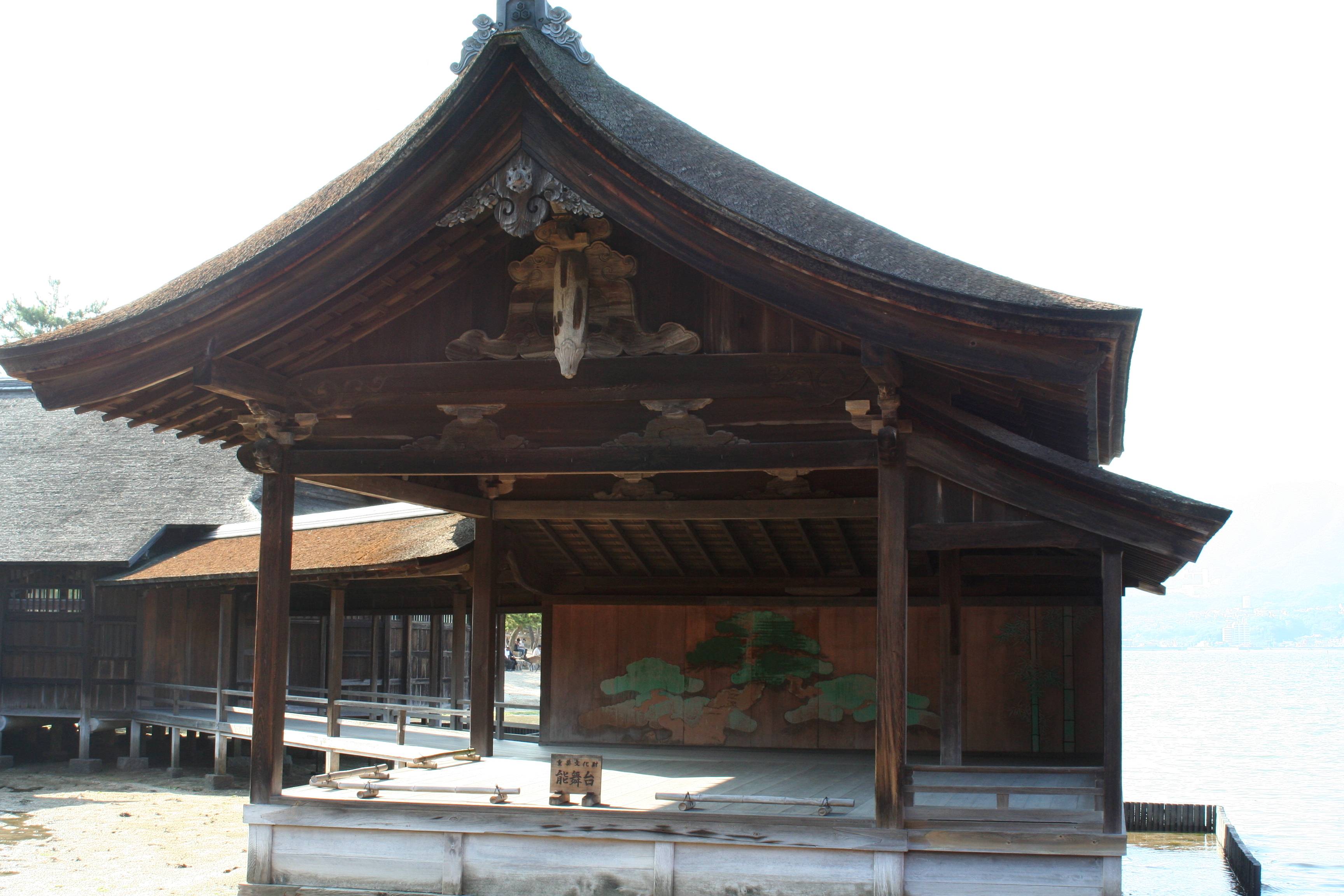 World's oldest existing Nō stage at Itsukushima Shrine, Miyajima Island, Hiroshima Prefecture, Japan.